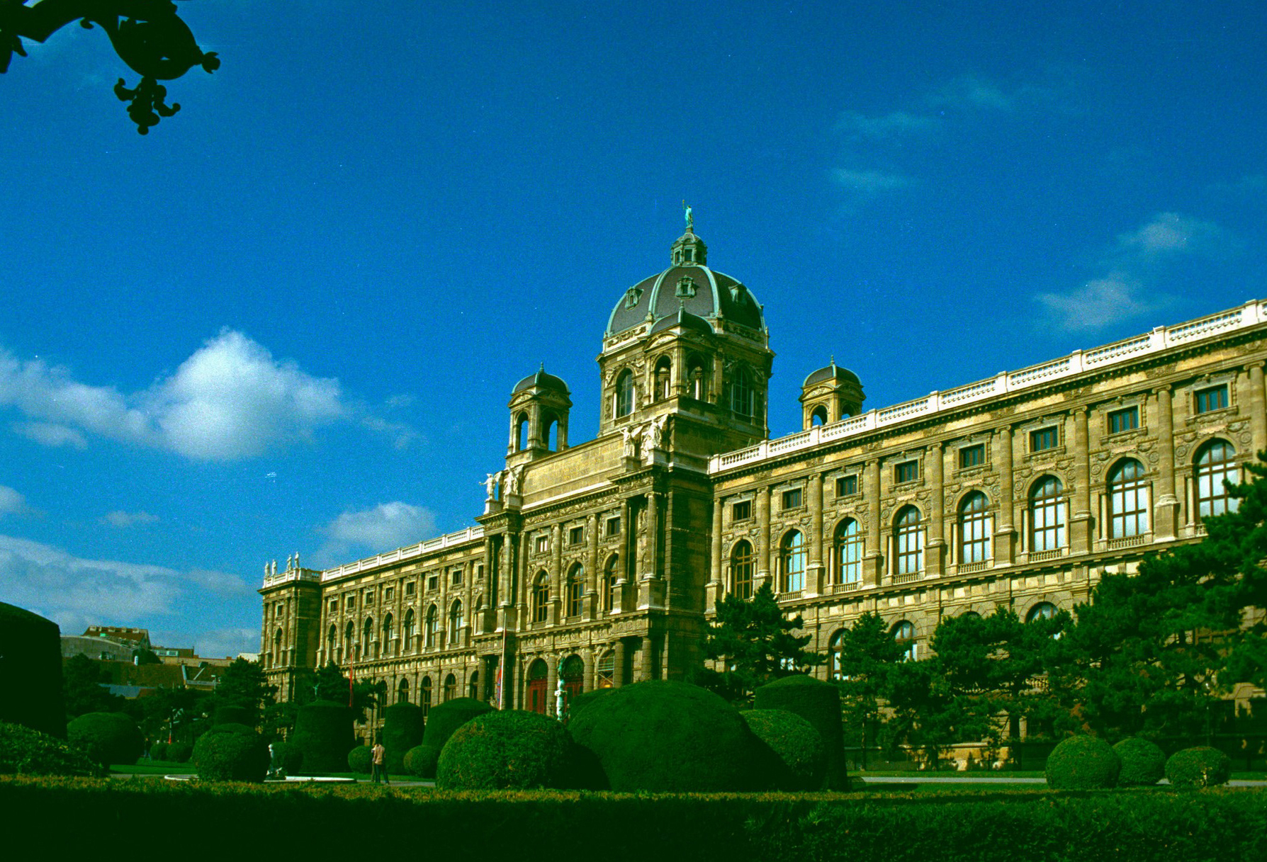 Austria, Vienna, Kunsthistorisches Museum